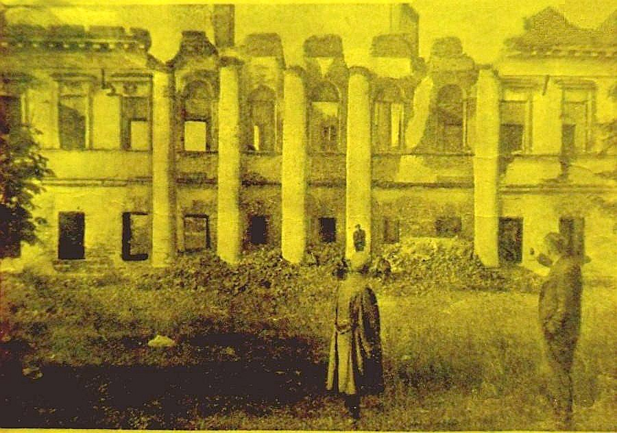 Dykanka. The ruins of the palace of Kochubey 1924